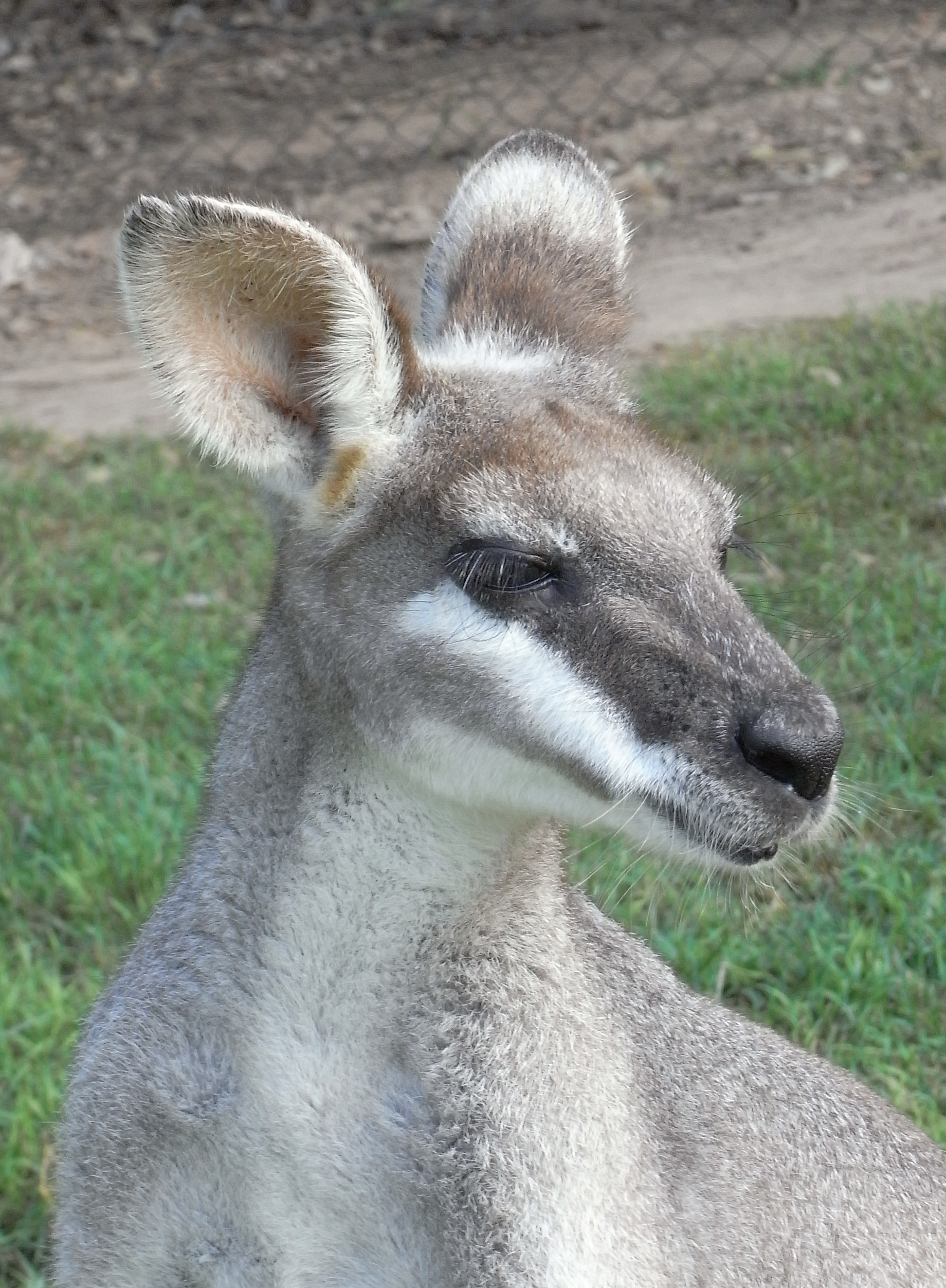 Whiptail Wallaby as you see also knonwn as Pretty-Faced Wallaby (Macropus parryi) at Lone Pine Koala Sanctuary, Brisbane, Australia.